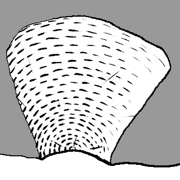 Negative scar of a lithic flake